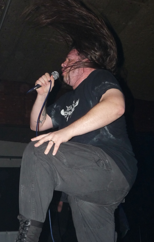 George Fisher, the singer of Cannibal Corpse on a live concert in Innsbruck/Tyrol on February 9th, 2009